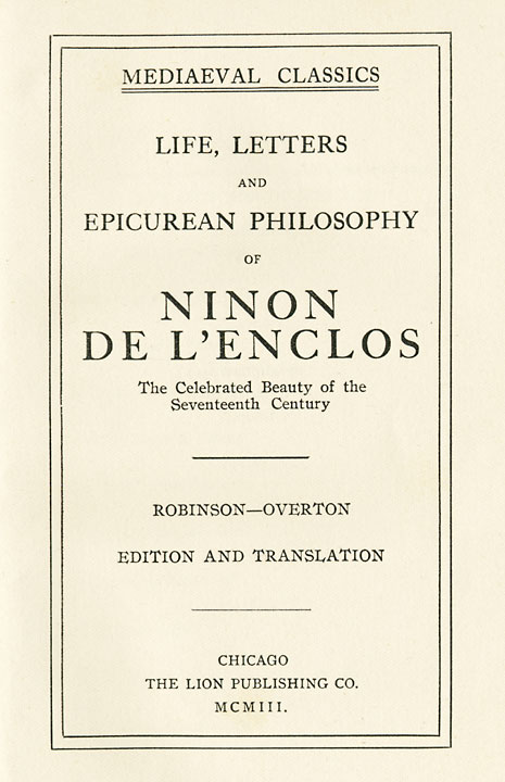 Cover page of a book on Ninon de l'Enclos, including translations of her letters